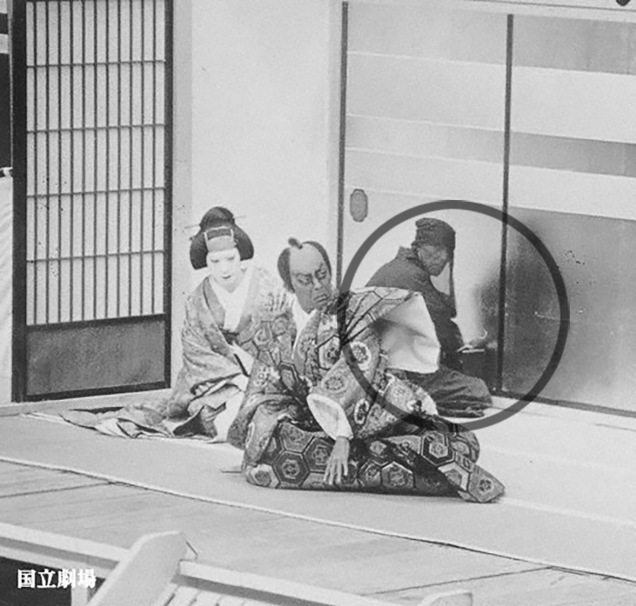 Kurogo behind actors, in the February 1932 Tokyo Gekijō production of Ichinotani Futaba Gunki: Kumagaya Jinya no Dan.